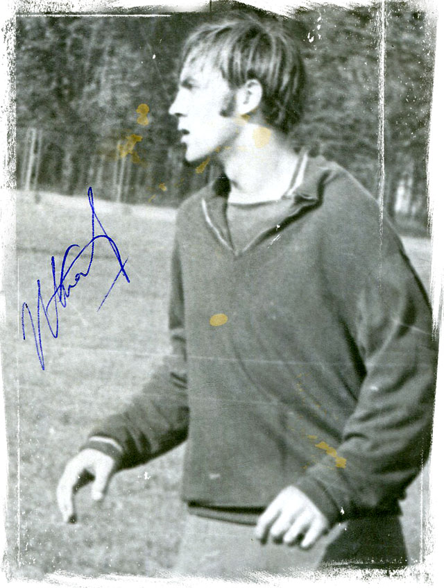 Roman Zhuravsky